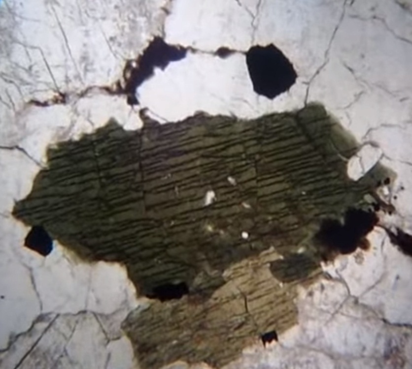 microscopic image of Pyroxene